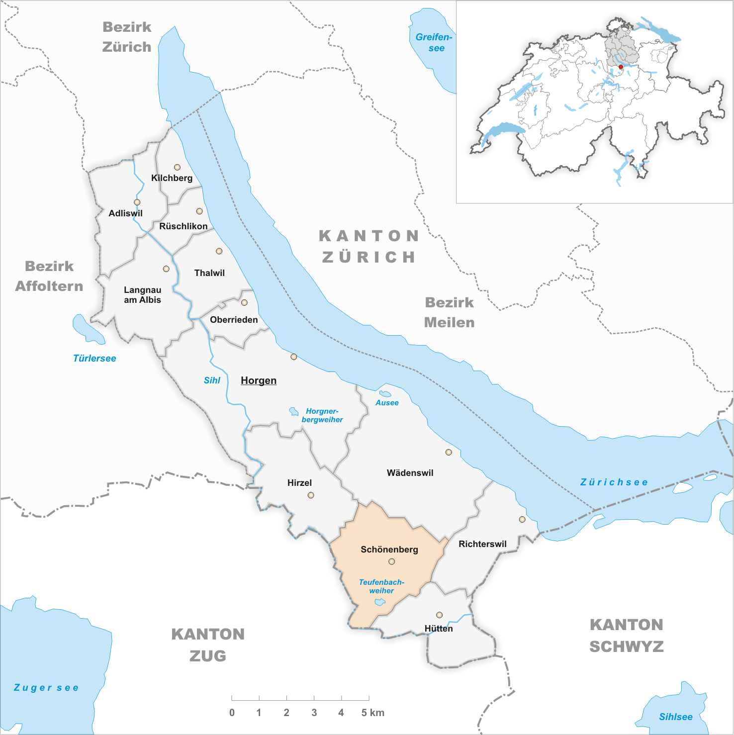 Municipality Schönenberg